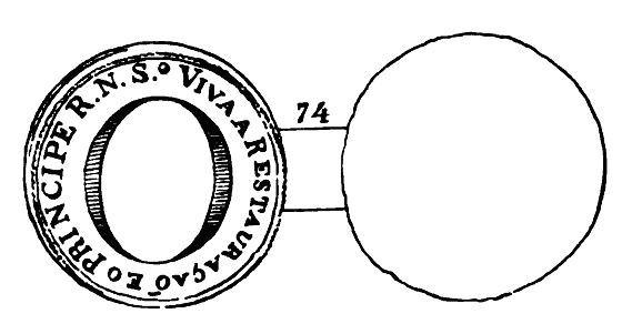 medalha